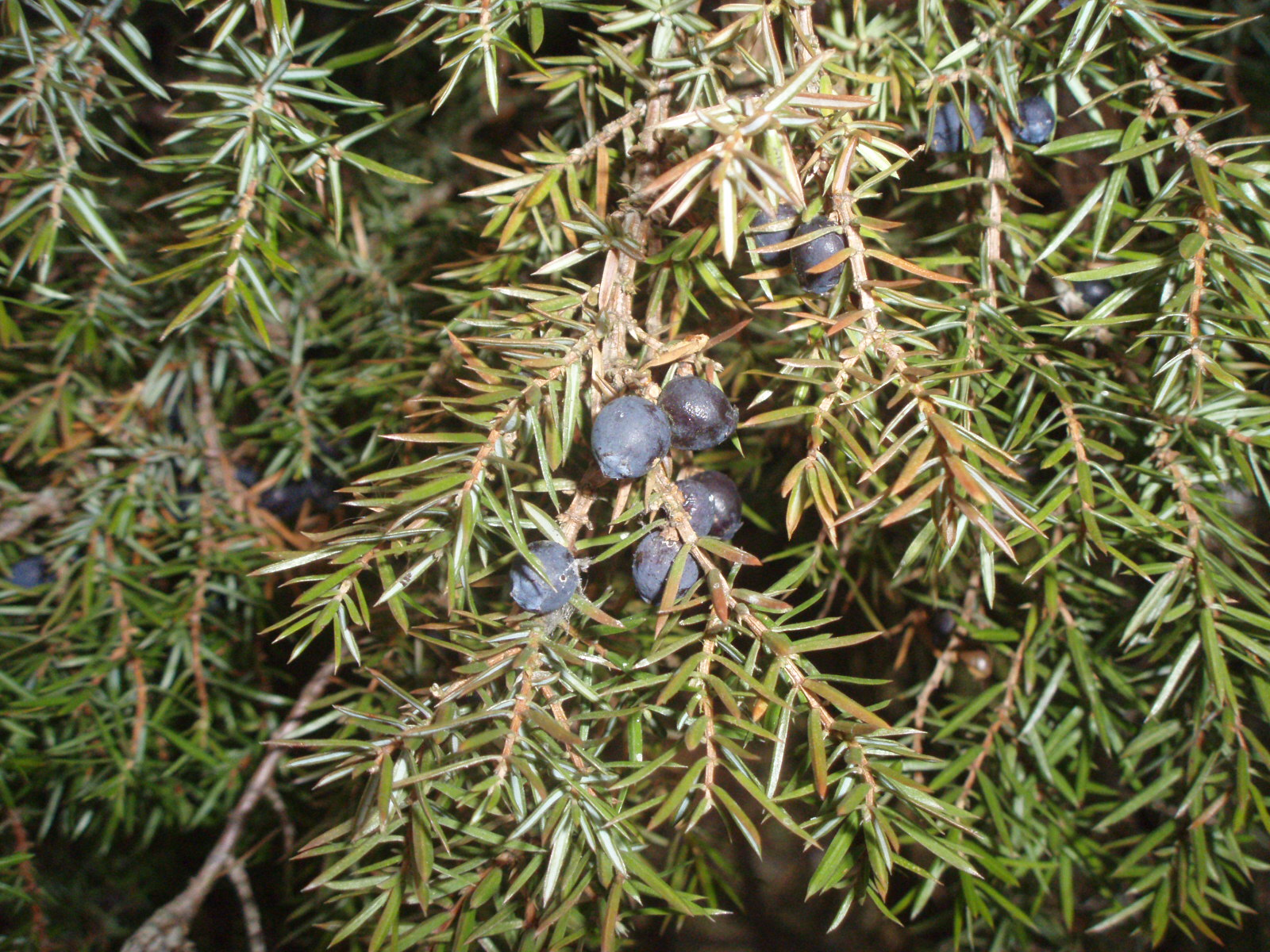 Juniper fruits